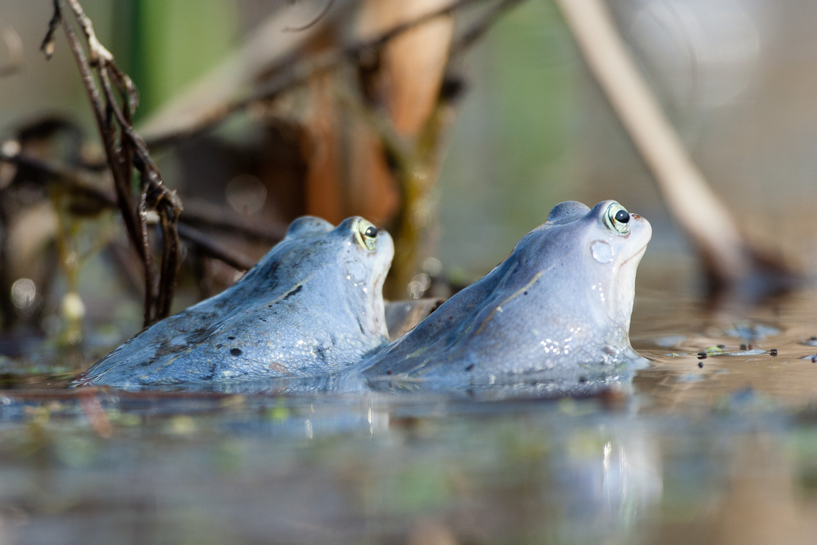 Males of the Moor Frog (Rana arvalis) in the mating season.